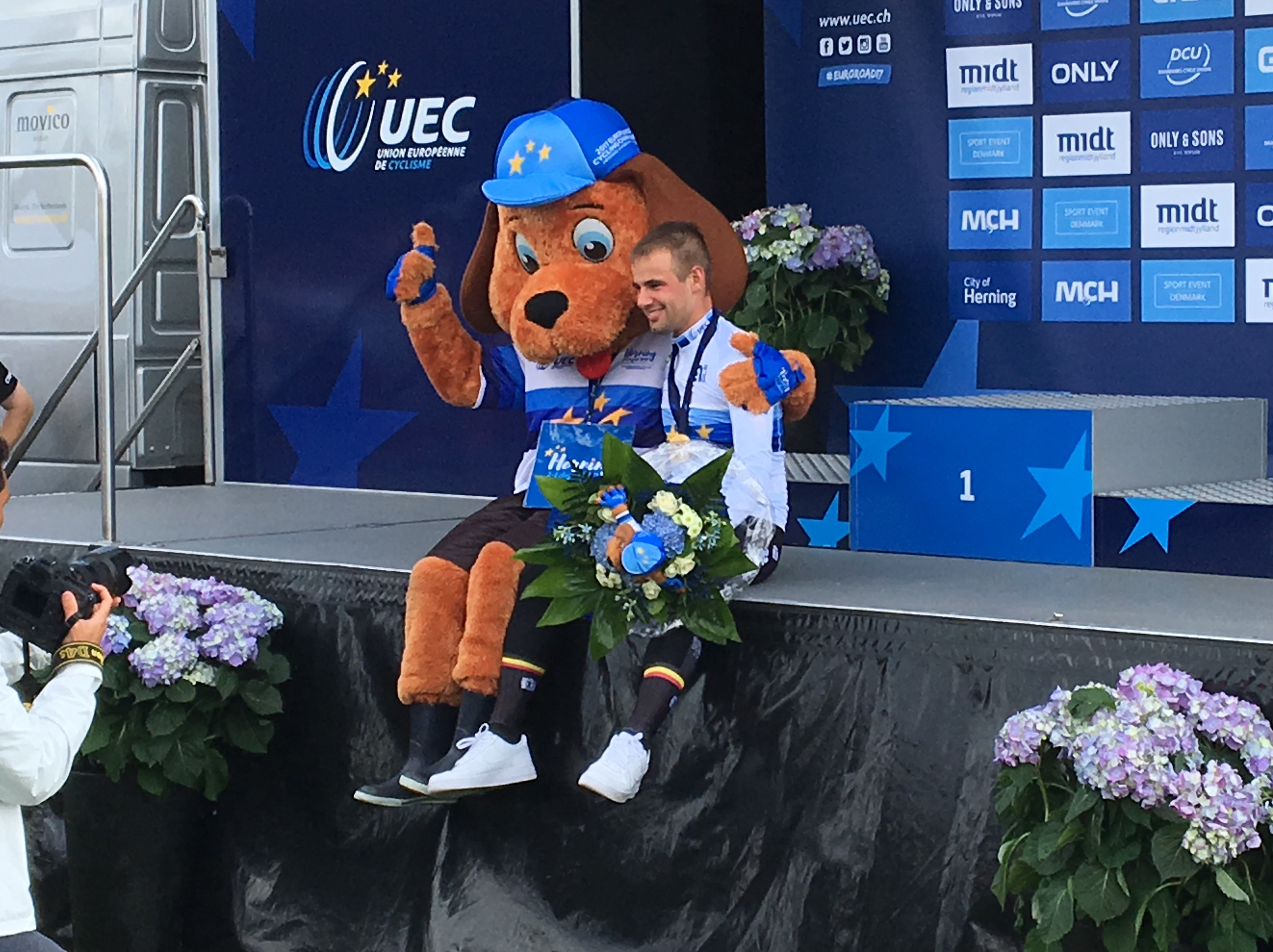 2017 European Road Championships – Men's time trial, Victor Campenaerts and Bikey